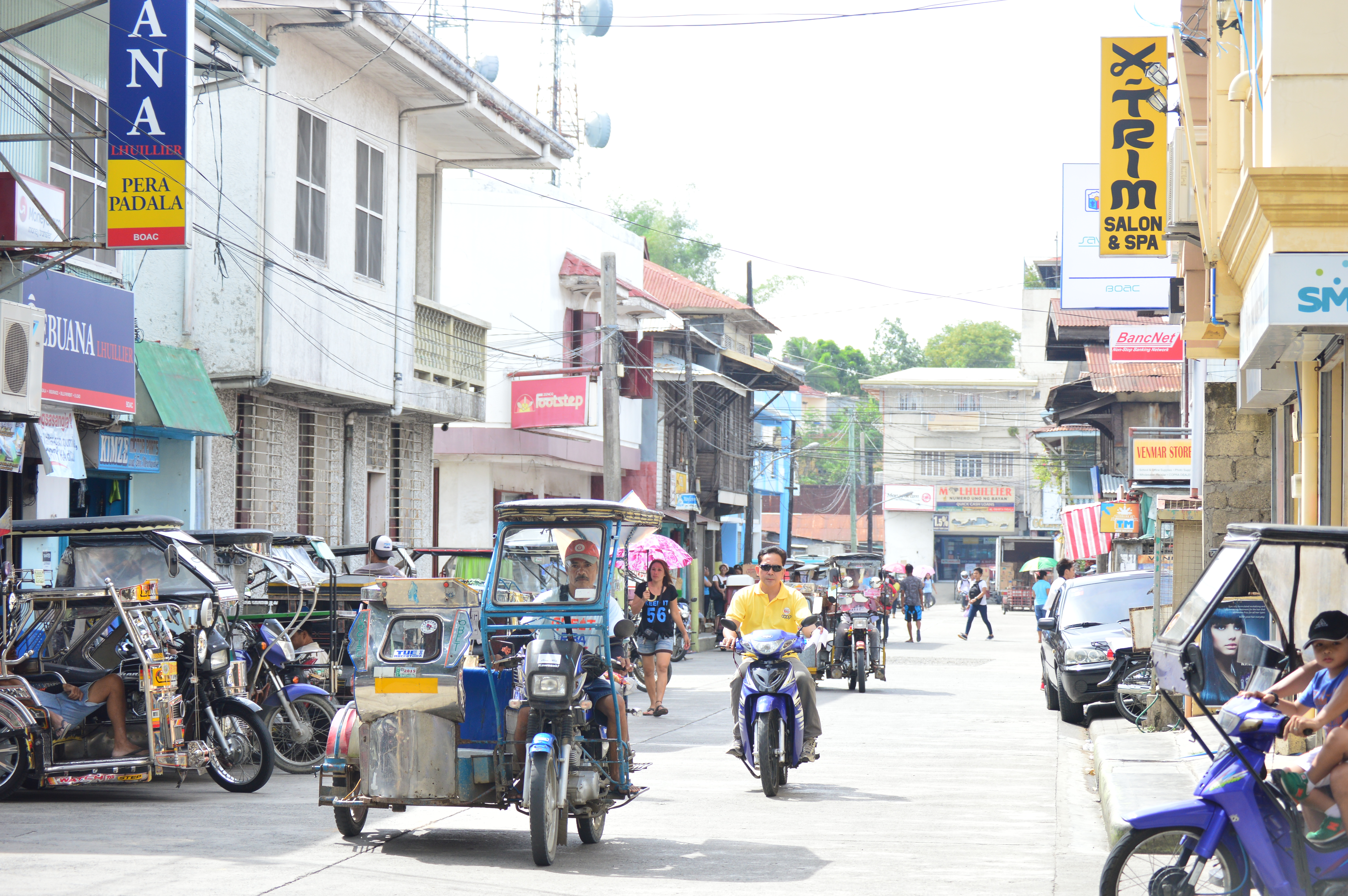 Commercial District